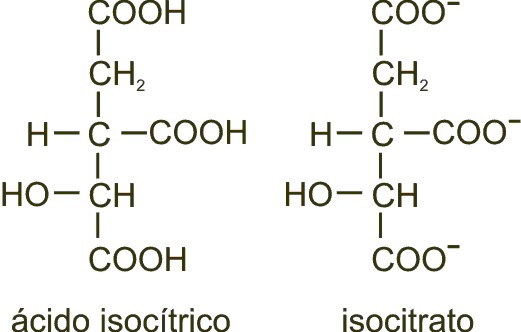 isocitric acid and isocitrate formula jpg